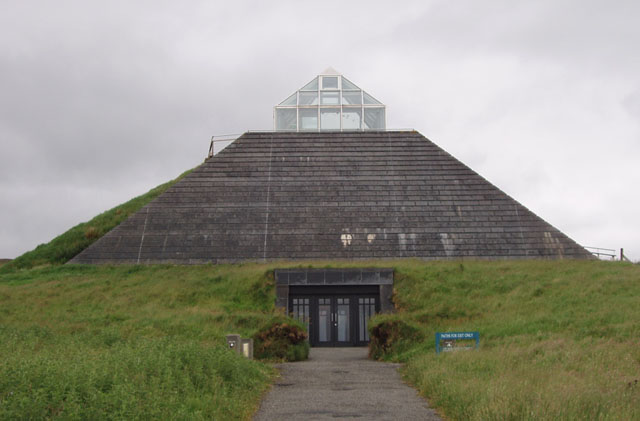 Ceide Fields Visitor Centre. Innovative design for the Visitor Centre, containing archaeological and geological information on the site, which is the largest stone age field system known. The stone walls have been covered by blanket bog for over 4000 years